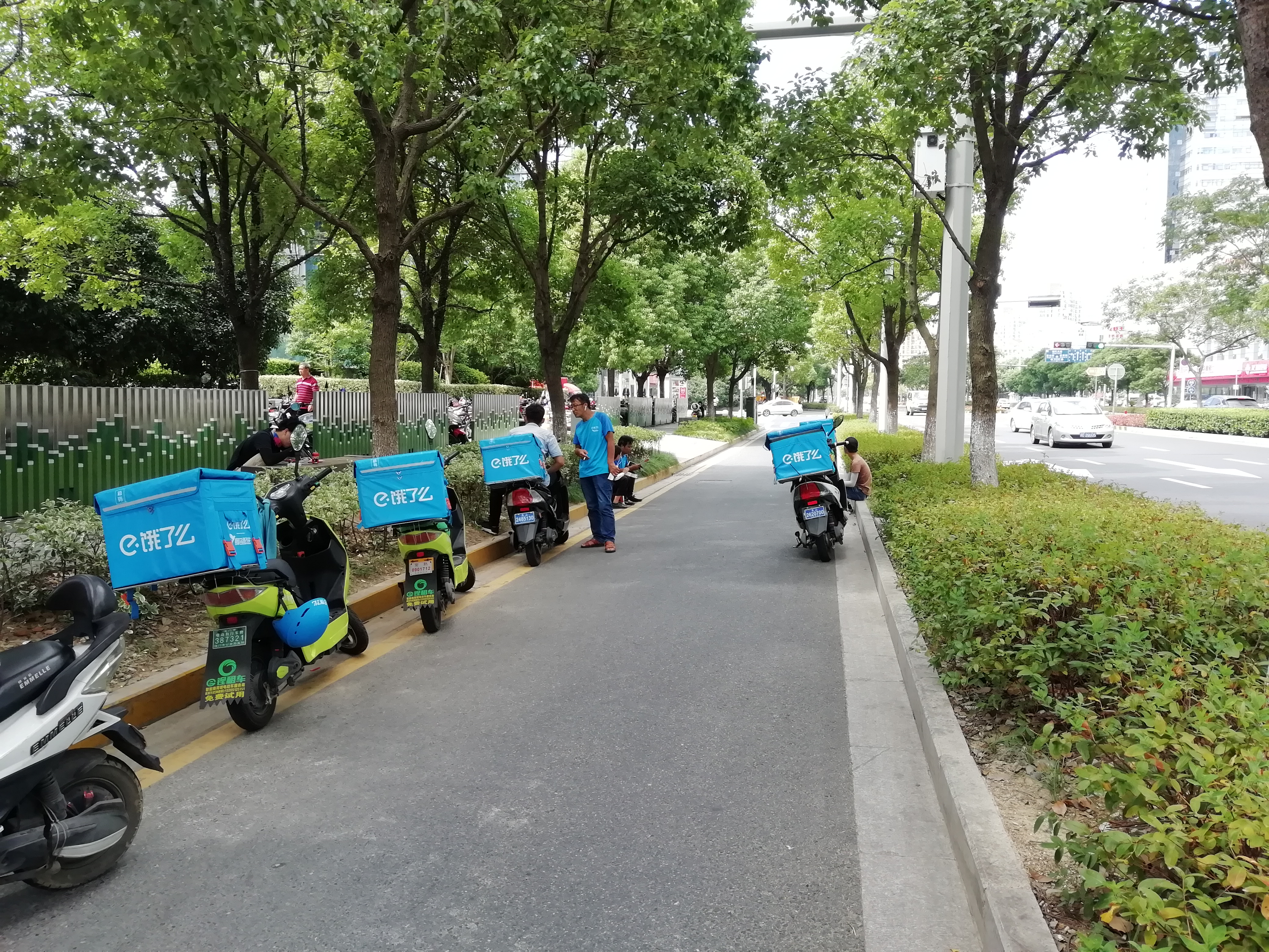 Many Eleme E-bikes were stopped on Xinghai Street, Suzhou Industrial Park, China. 中文（中国大陆）: 停放在苏州市工业园区星海街的多辆饿了么外送车